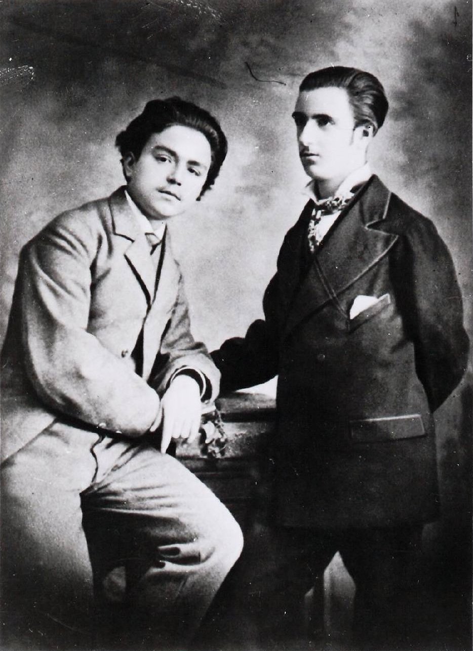 Spanish pianist and composer Isaac Albéniz (1860-1909) and Spanish violonist, composer and conductor Enrique Fernández Arbós (1863-1939)